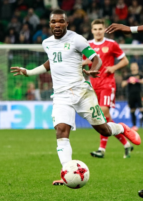 Serey Die